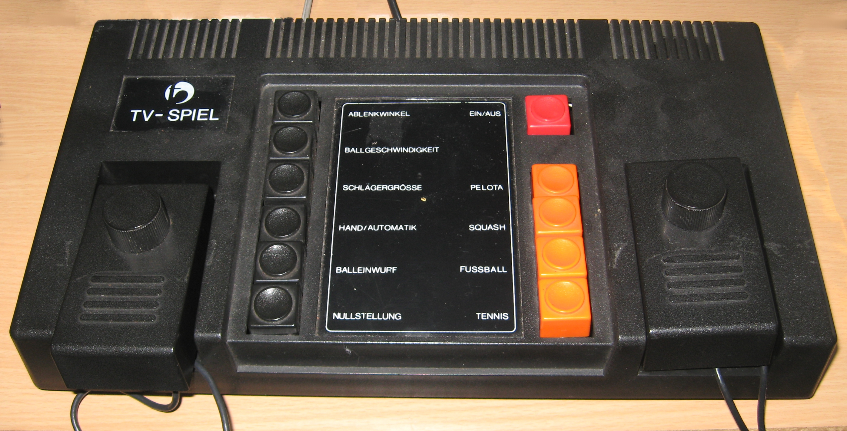 BSS 01, contraction of Bildschirmspiel 01 (translation: Videogame 01), also known as RFT TV-Spiel. The only one console produced in East Germany. Photo taken at Retro Gatering, Stockholm, 27 Sep 2008.